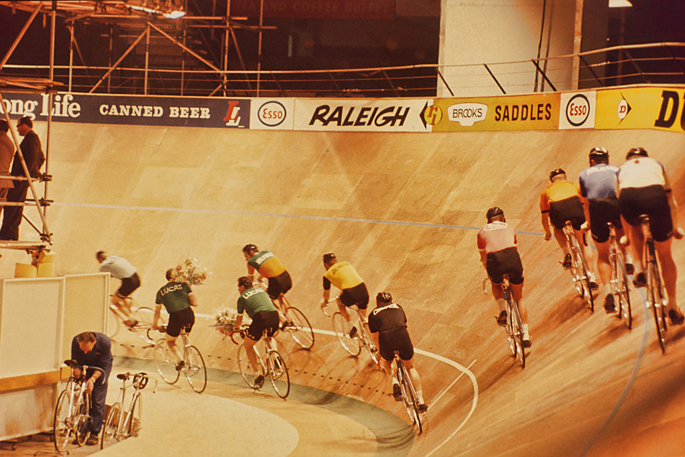 The 1967 London Six Day Cycle Race on a temporary indoor track at Earls Court. The riders in the green Lucas jerseys are Australians Ron BAENSCH (leading) and Sid PATTERSON.